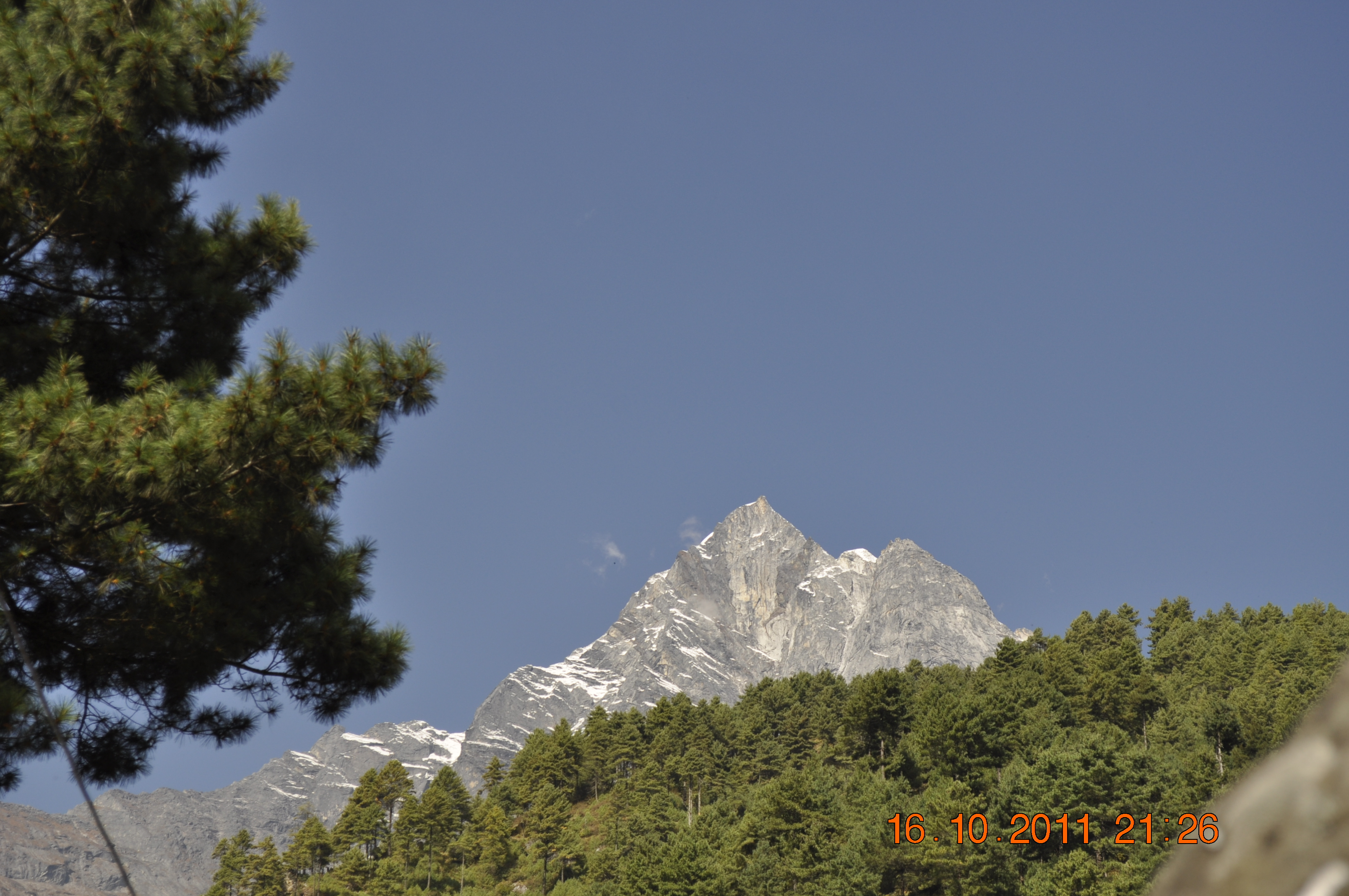 Mt Everest